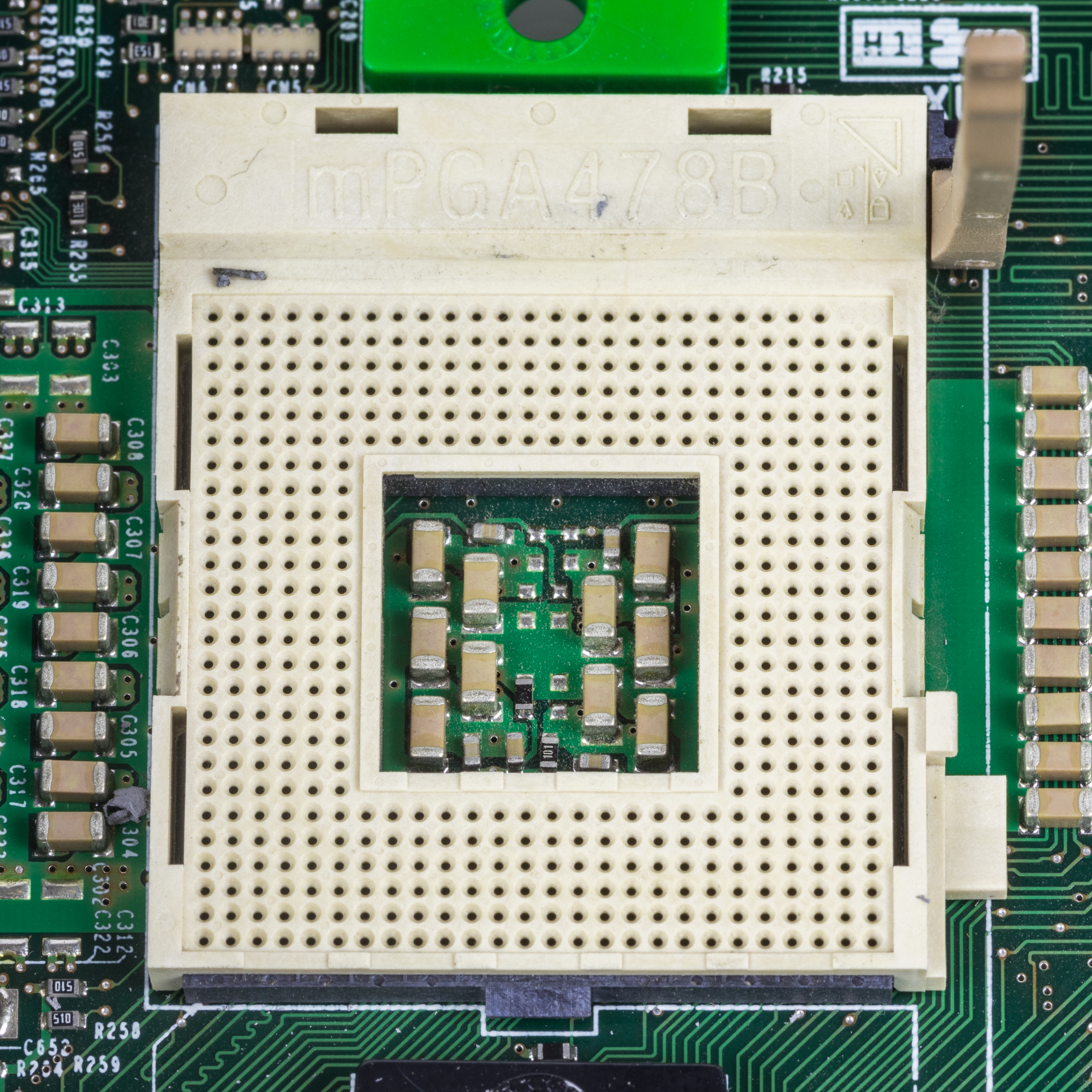 Compaq 011347-001 processor board - socket mPGA478B